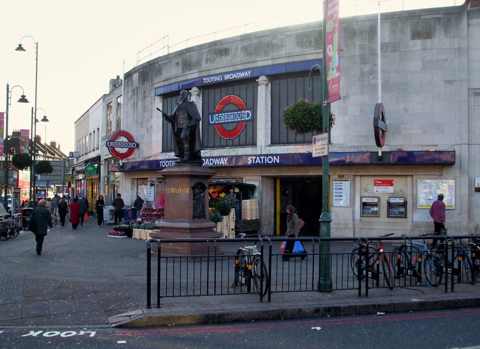 Tooting Broadway tube station, with statue of King Edward VII in the foreground